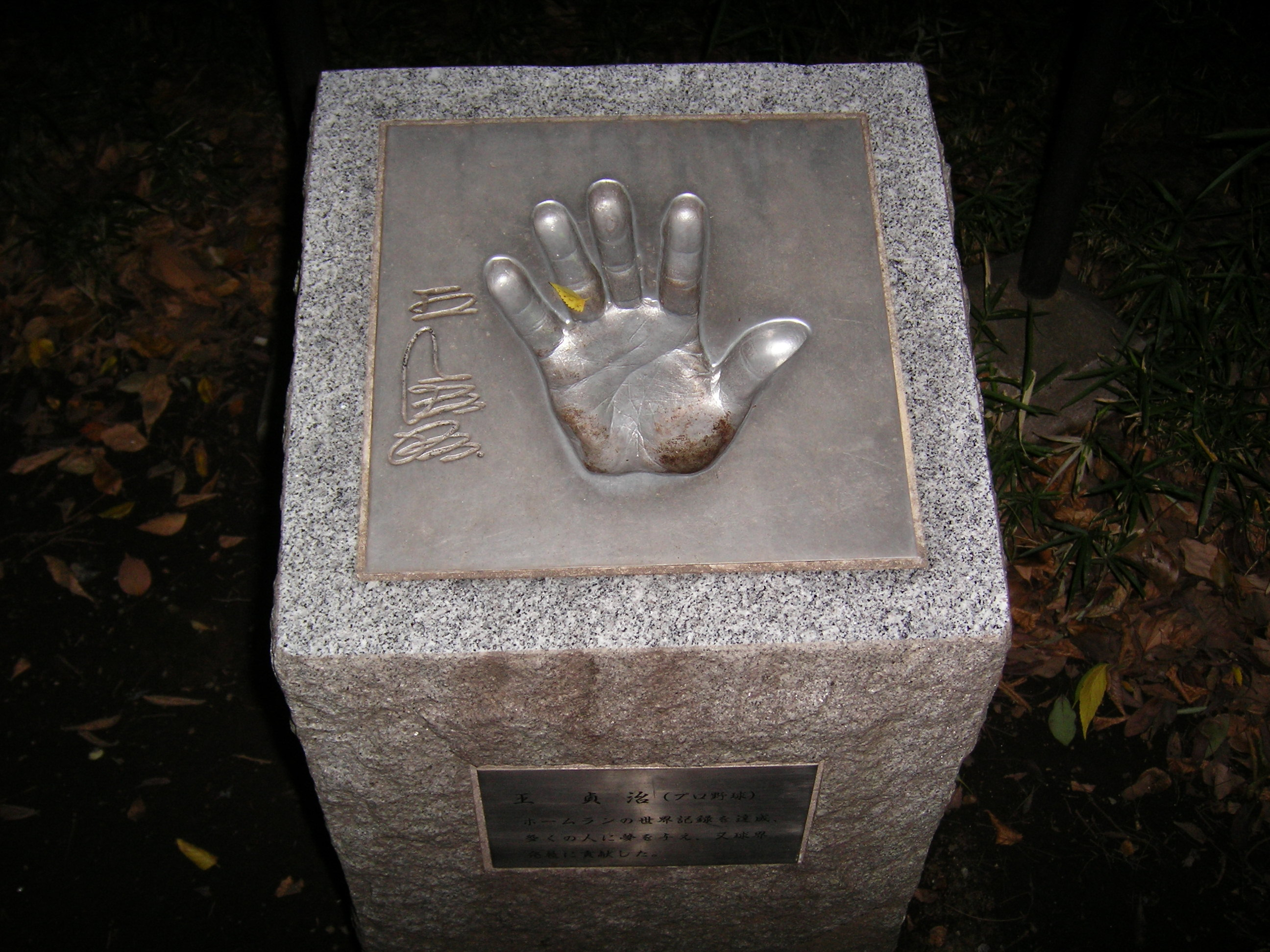 Handprint of Sadaharu Oh